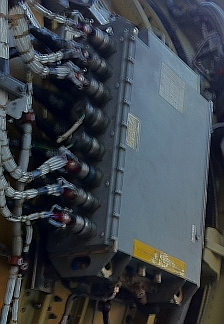 CF6-Engine FADEC